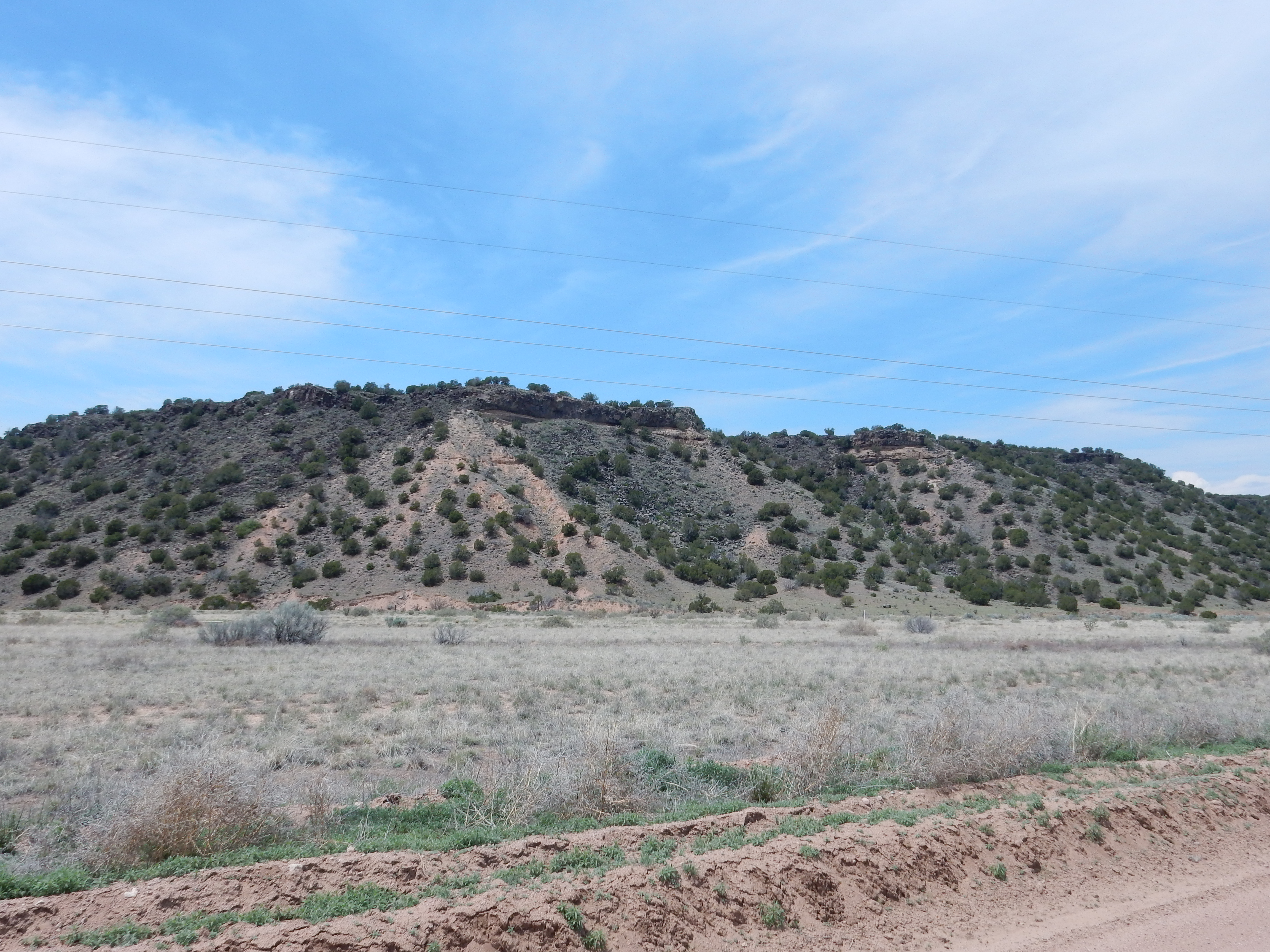 This image displays the type section of the Ancha Formation, northwest of Santa Fe, New Mexico, USA. The Ancha Formation is the youngest formation of the upper Santa Fe Group in this part of the Rio Grande rift, with an age of 1 to 3 million years.